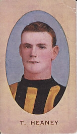 Cigarette card of Tom Heaney from the Sniders & Abrahams 1910 series